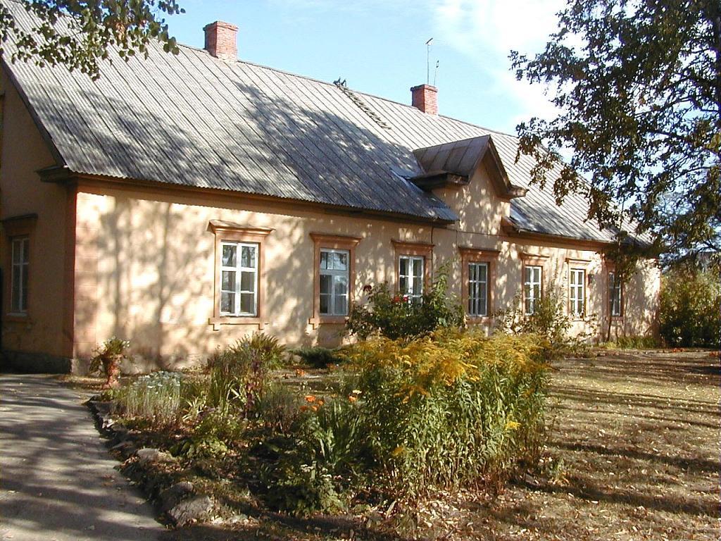 Vireši parish administration